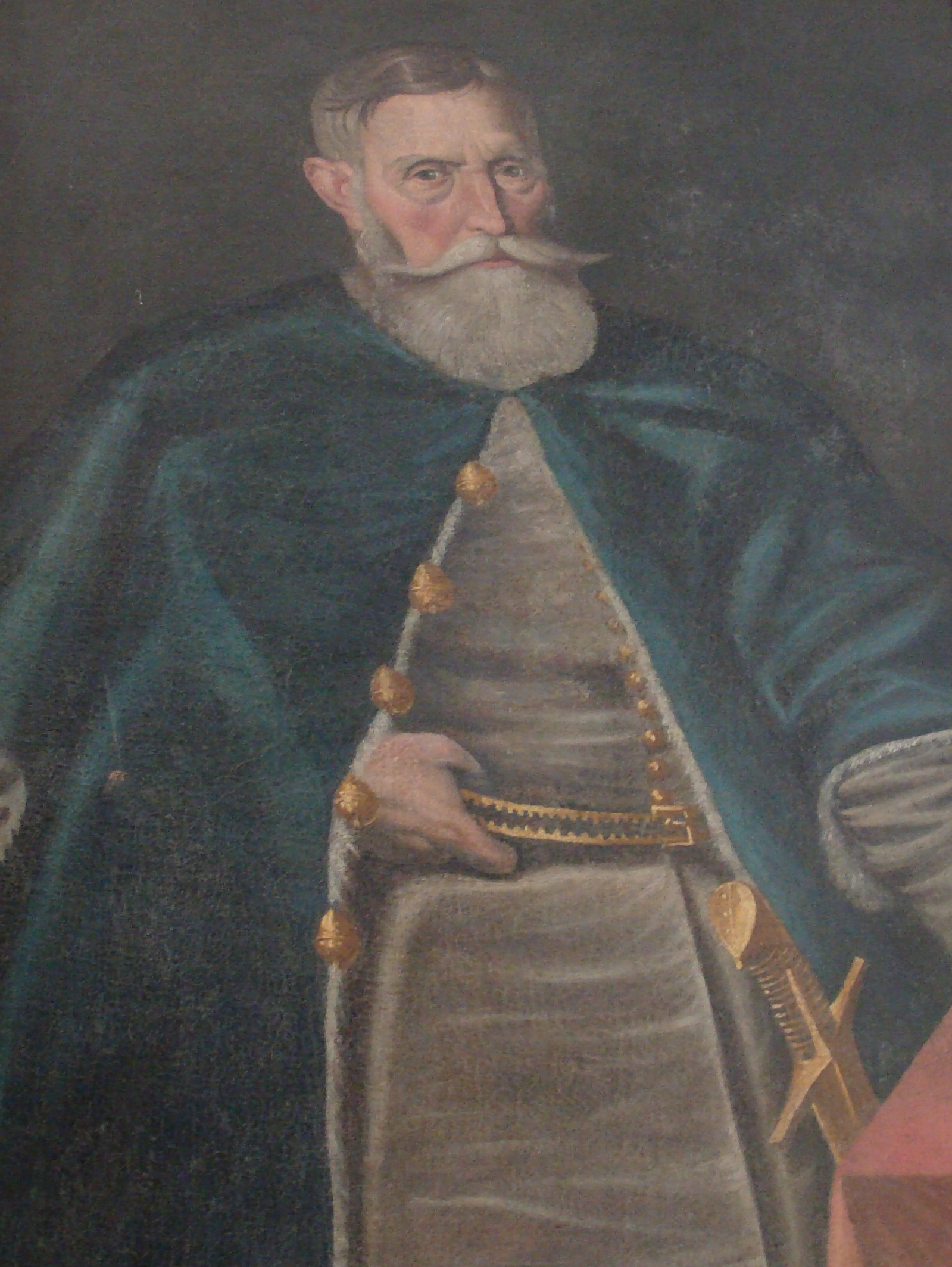 Florian de Kunowa Oświęcim, Chapel in Krosno